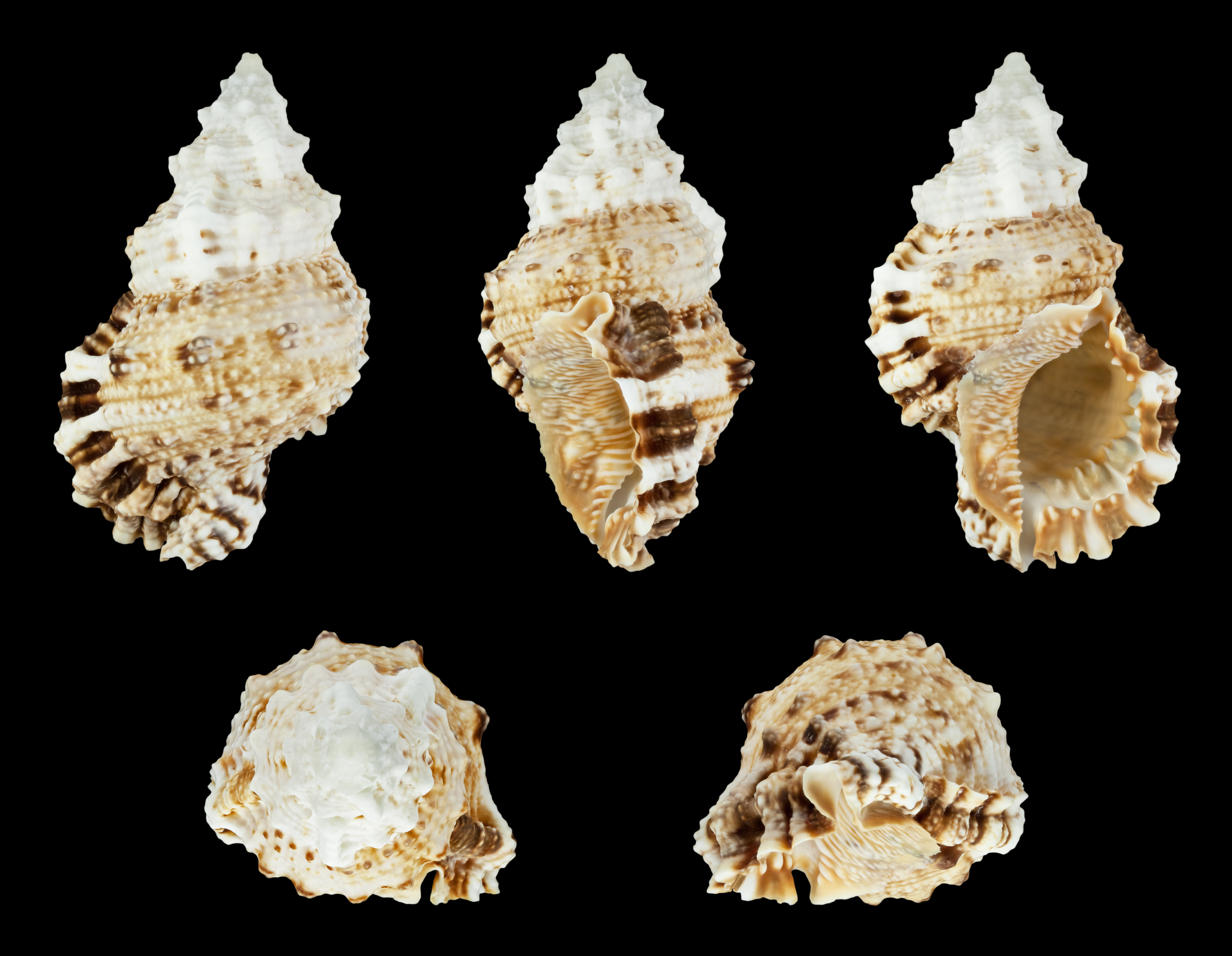 Tutufa rubeta (Linnaeus, 1758), Ruddy Frog Shell, brown form; Length 7.9 cm; Originating from the Philippines; Shell of own collection, therefore not geocoded.